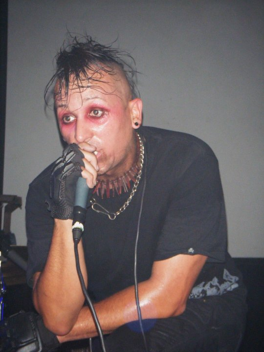 Erk Aicrag as he performs with Rabia Sorda in The Button Factory, Dublin